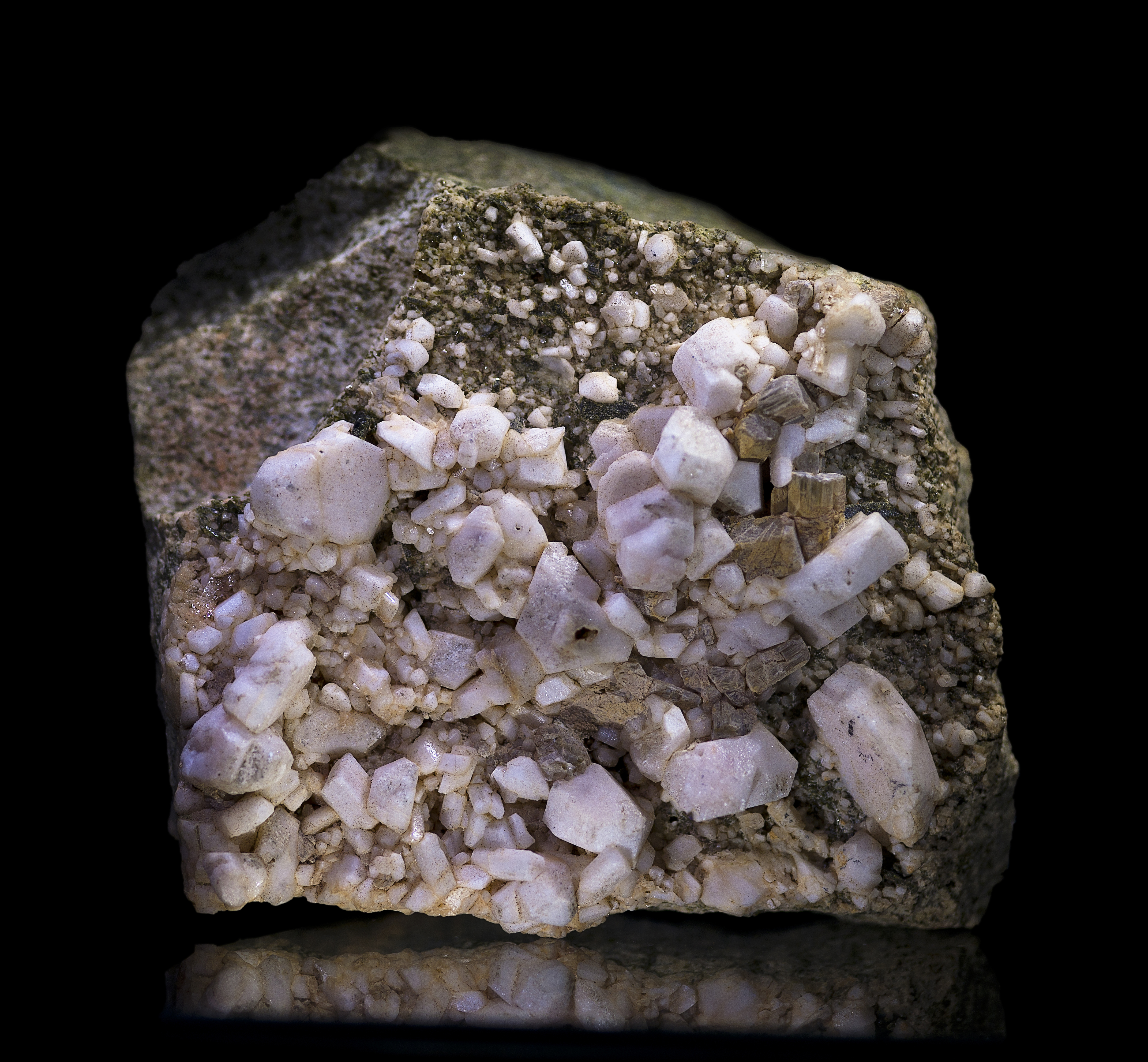 Albite Locality : Pfitsch pass, Zamser Grund (Zams valley), Ziller valley, North Tyrol, Tyrol, Austria Size 15x14x6.7 cm